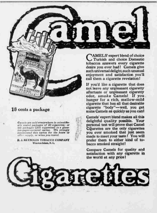 Camel Cigarette ad from a 1913 newspaper.